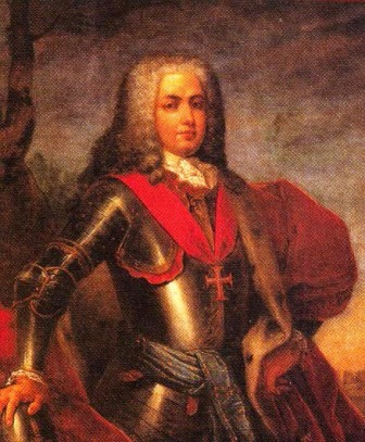 Um jovem principe